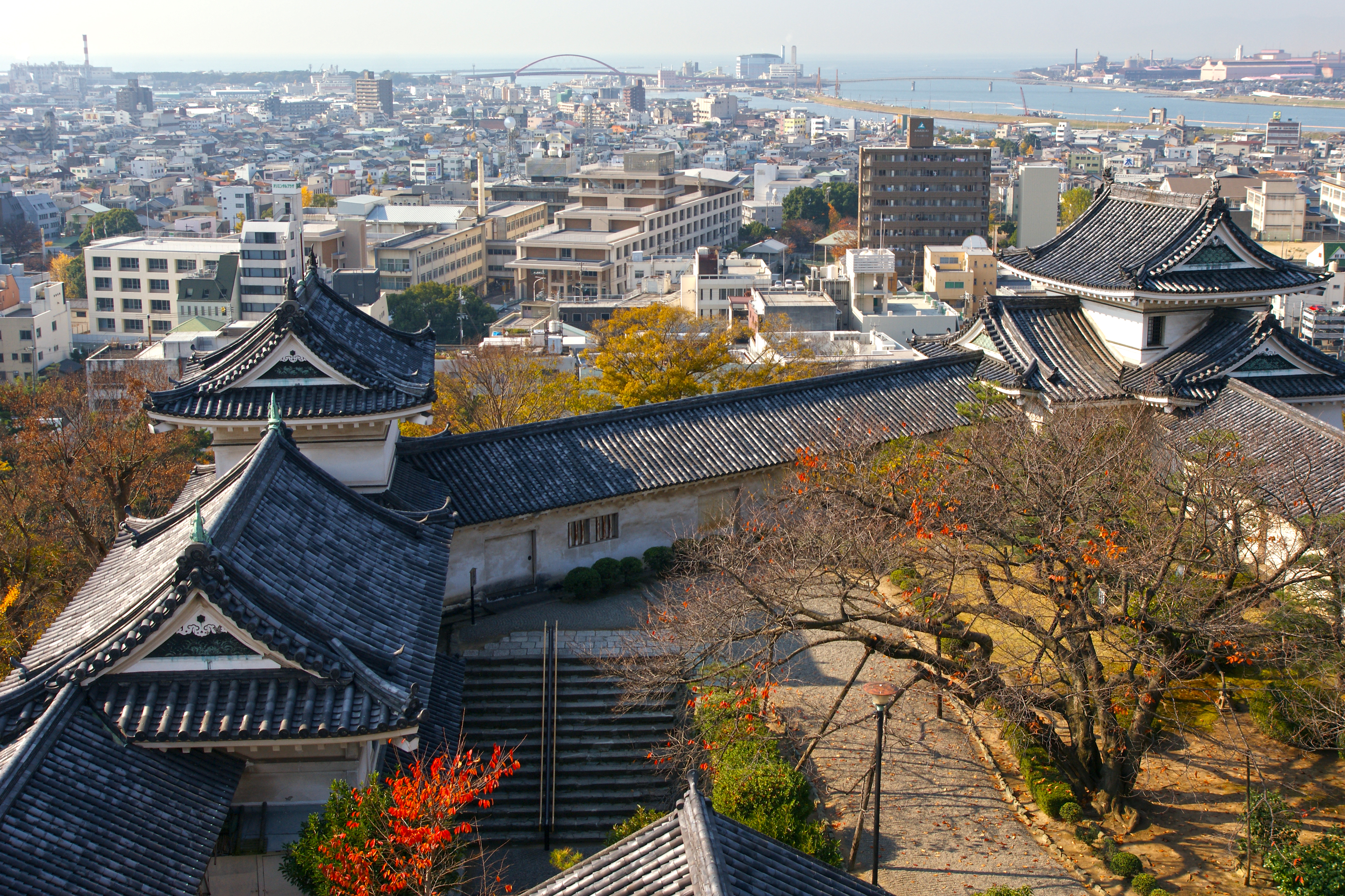 Wakayama Castle, Wakayama, Wakayama prefecture, Japan